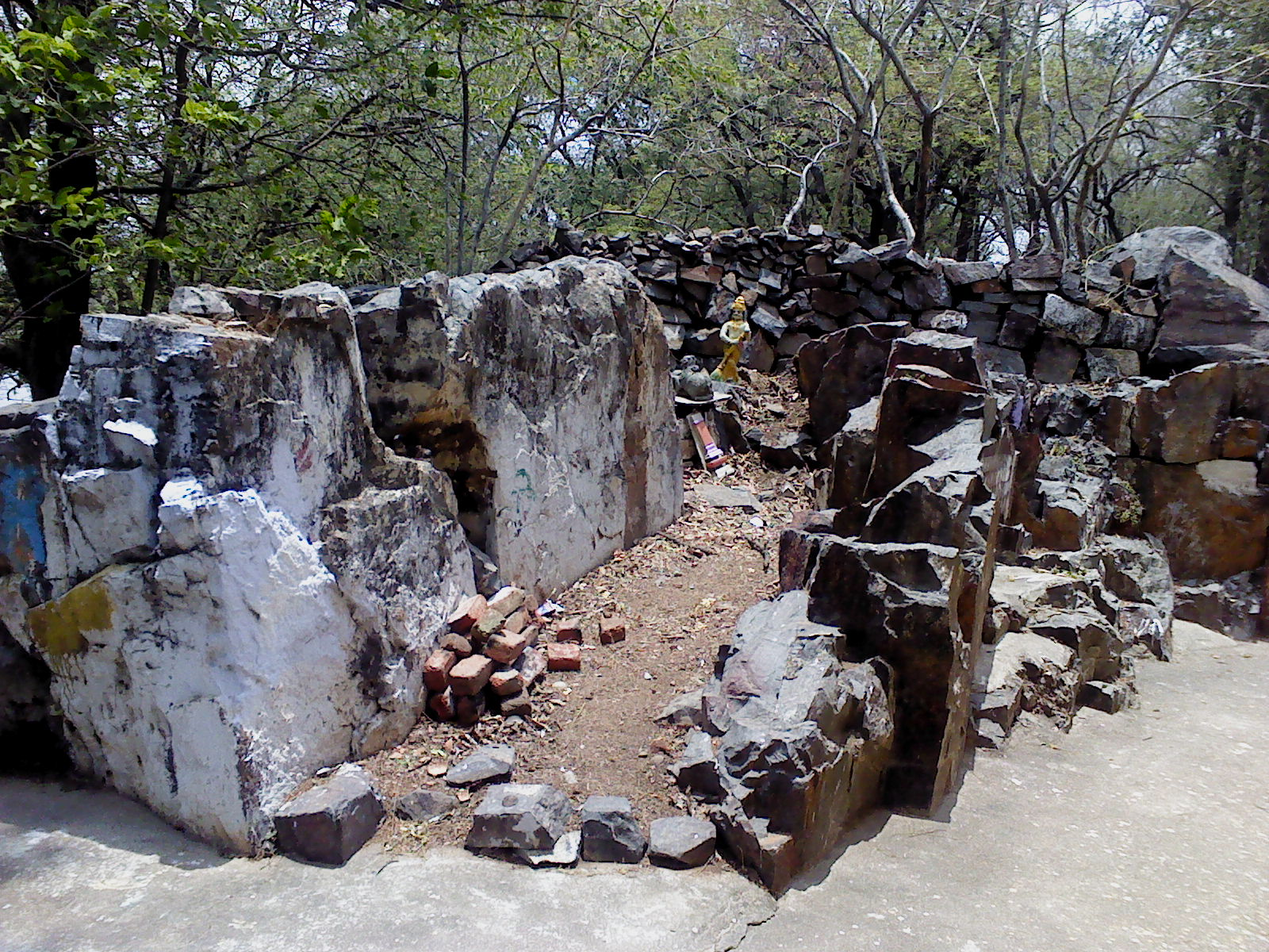 this pic captured by me in Rajeshwara temple of my village